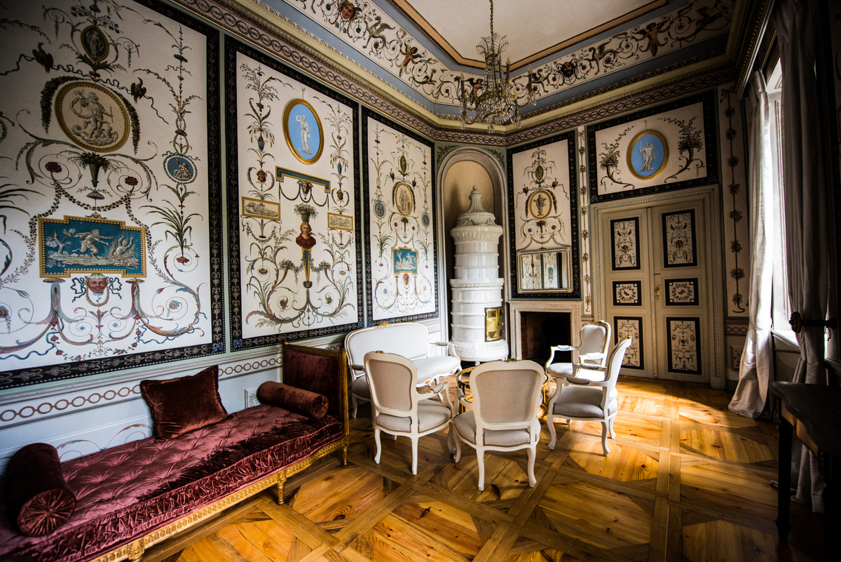 Pompeii Hall - grotesque fresco resembling Pompeian drawings